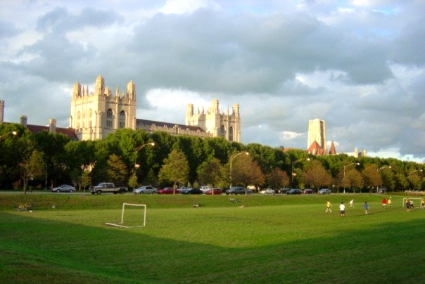 Several towers of the Main Quadrangle of the University of Chicago seen from the Midway Plaisance.